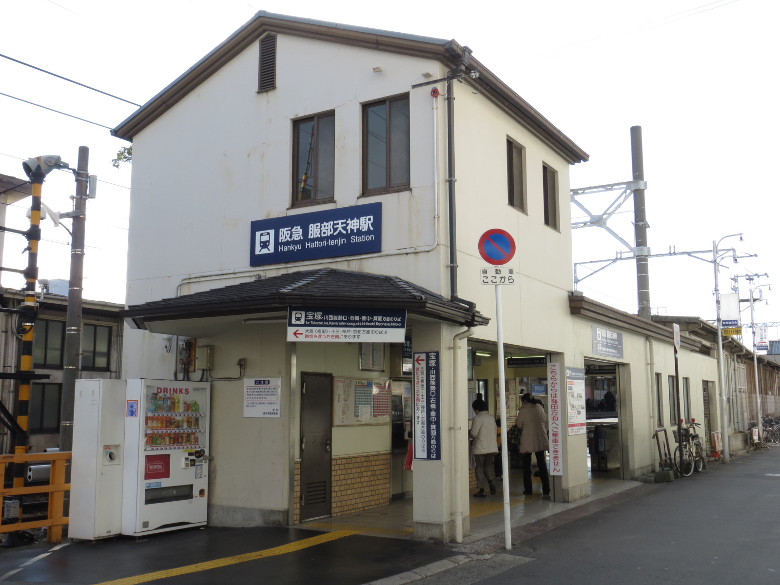 West Gate from Hattori-tenjin Station (HK43), Hankyu Takarazuka Main Line.